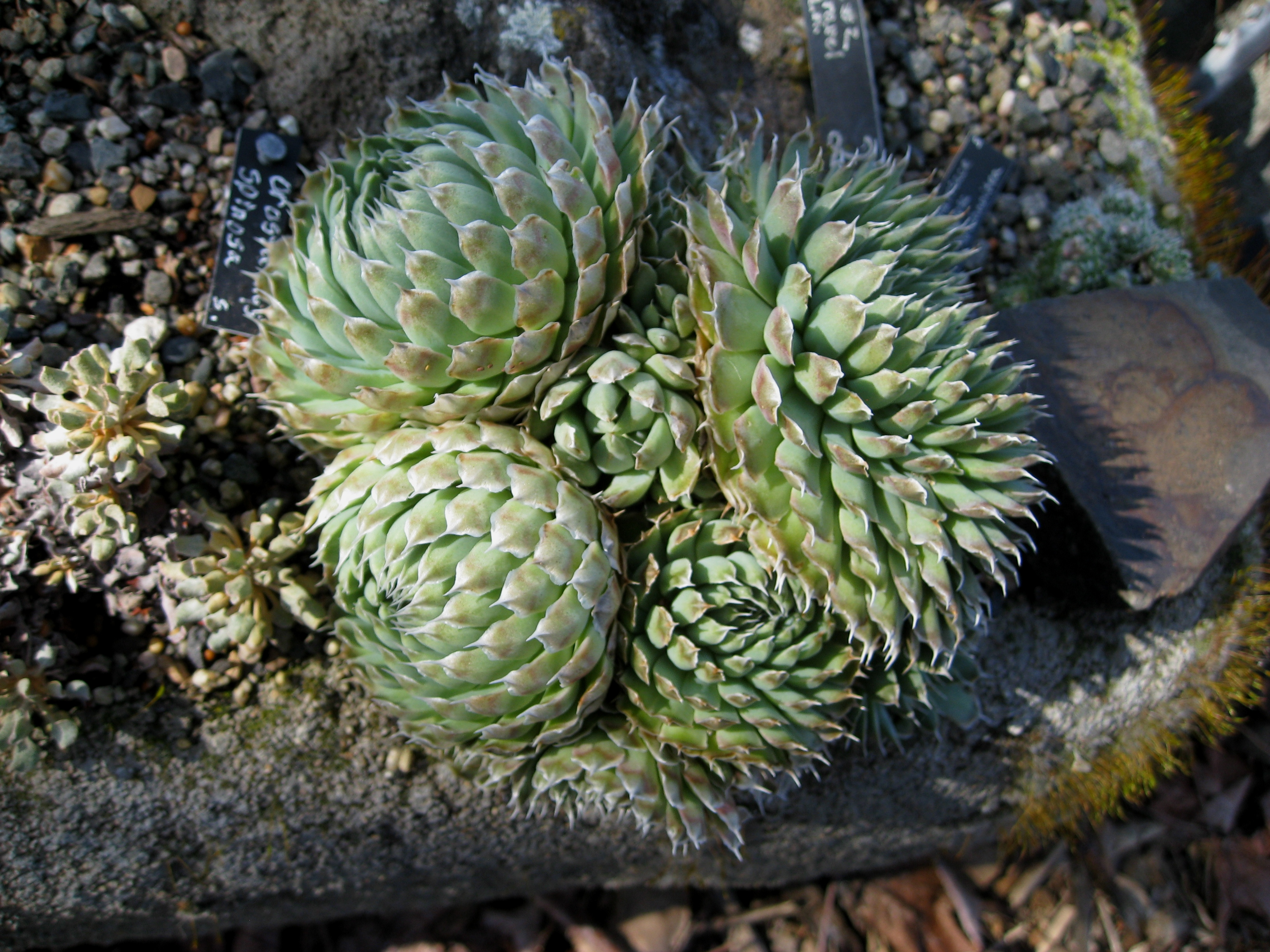 Orostachys spinosa I believe Here is a very useful website article on Orostachys spinosa by Kristl Walek of the Ottawa Valley Rock Garden & Horticultural Society (OVRGHS). seawt10 244